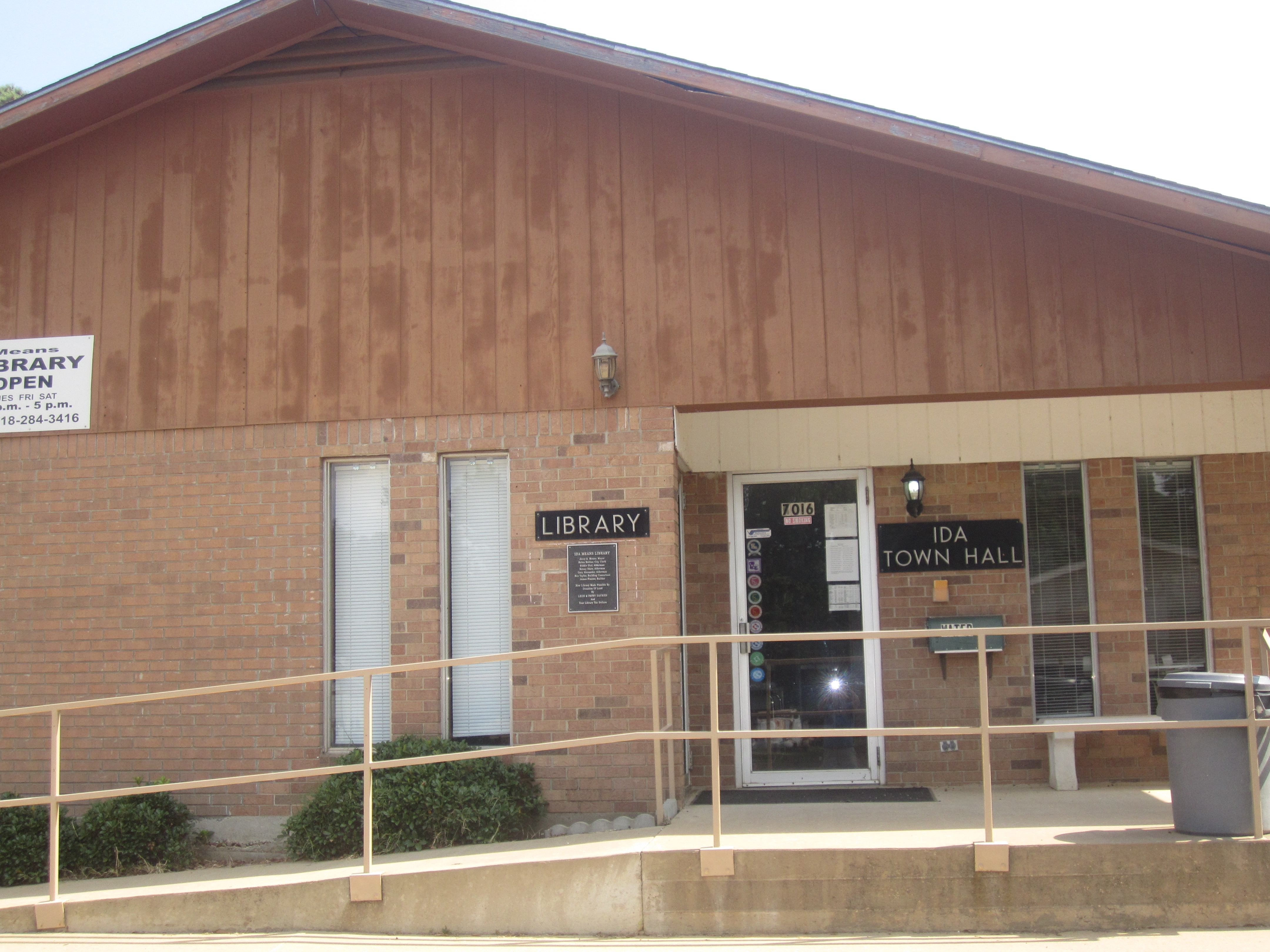 I took photo in Ida, LA, of combination village hall and library on June 9, 2012, with Canon camera.Billy Hathorn (talk) 02:46, 28 June 2012 (UTC)